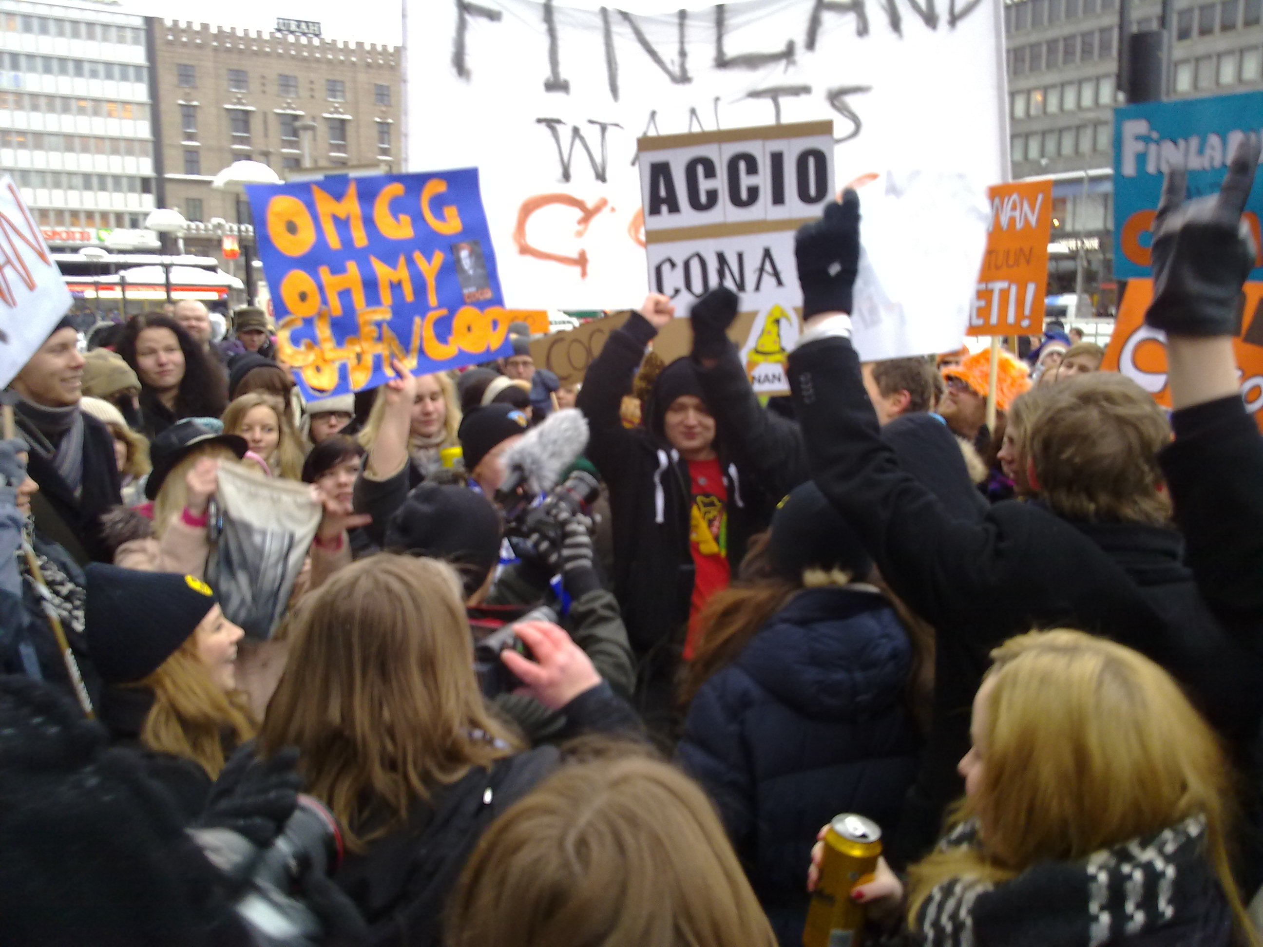 "Finland Wants Conan" demonstrative gathering in the center of Helsinki, Finland. Finnish fans wanted to see Conan O'Brien's new show air in Finland. The event gathered about 150 people and dozens of journalists. It was hosted by Finnish-American Alexandra Alexis.